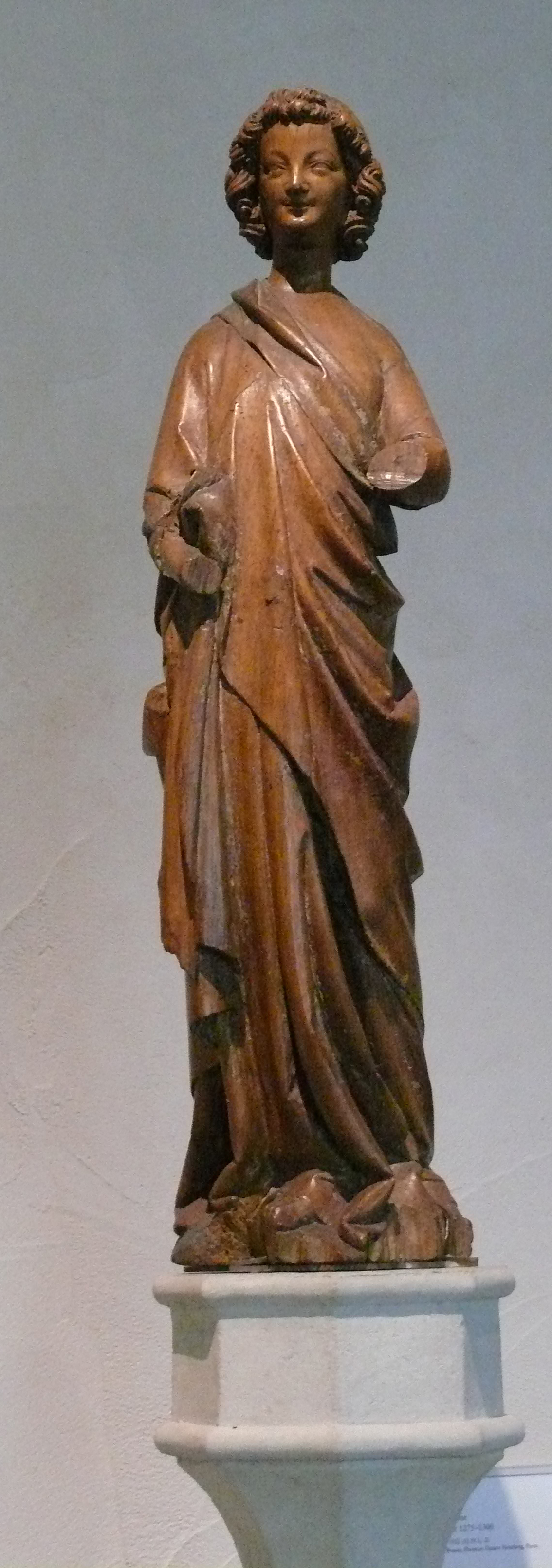 One of a pair of altar angels. The style of these figures -kept in The Cloisters- derives from the smiling angels on the west façade of Reims Cathedral. Laughing angel in portal of Reims Cathedral [1] * Date ca. 1275–1300 * Geography Made in Artois, France * Medium Oak with traces of paint * Dimensions: 29 x 7 5/8 in. (73.7 x 19.3 cm) * Credit Line: The Cloisters Collection, 1952 * Accession Number: 52.33.1, .2